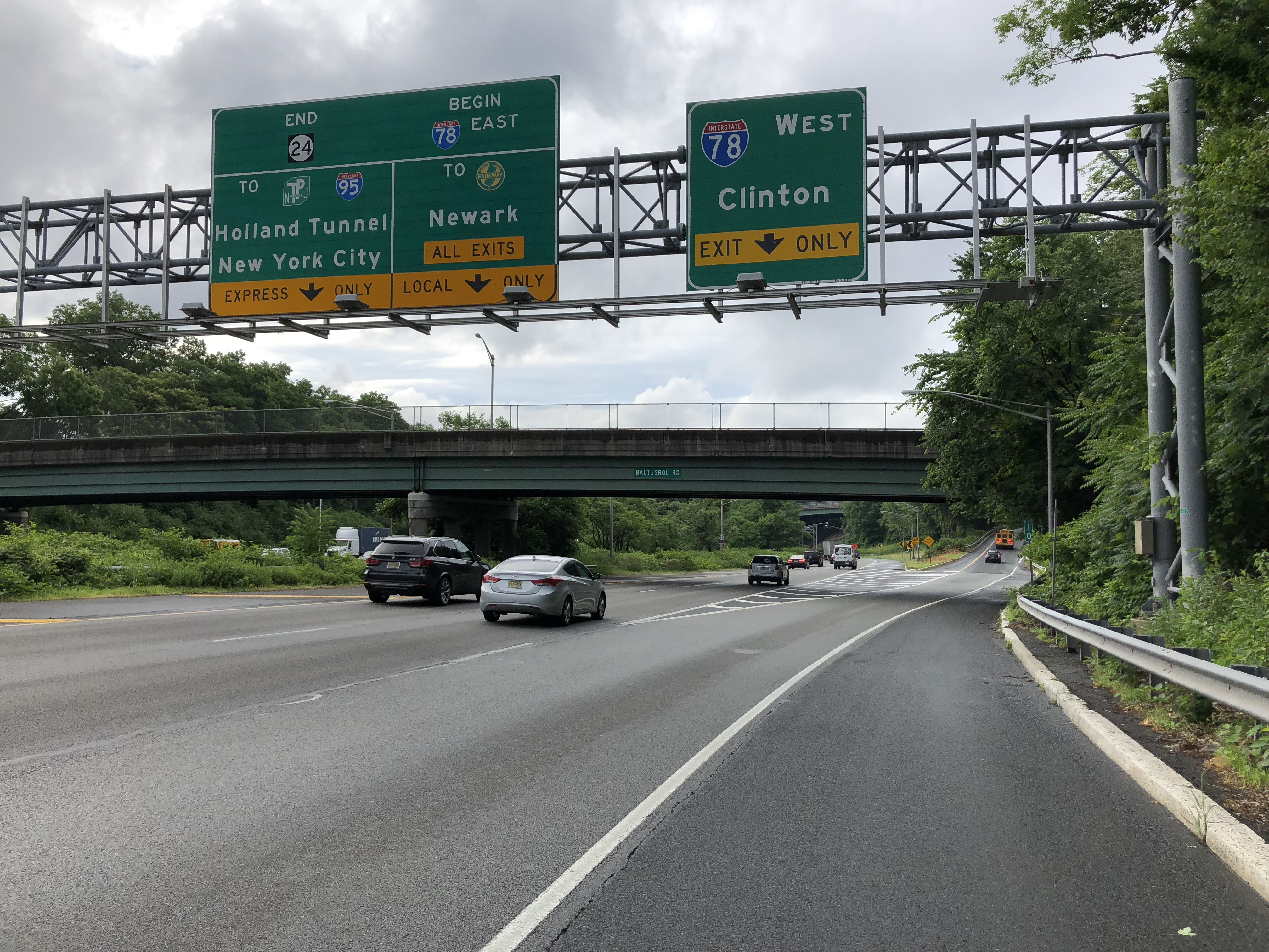 View east along New Jersey State Route 24 at the exit for Interstate 78 WEST (Clinton) in Springfield Township, Union County, New Jersey